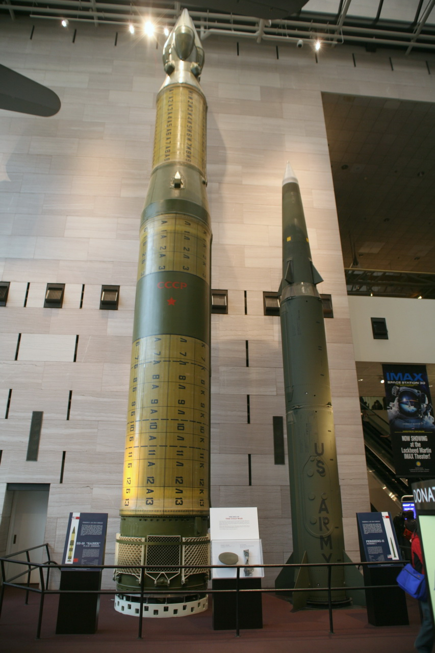 The Pershing II was a mobile, intermediate-range ballistic missile deployed by the U.S. Army at American bases in West Germany beginning in 1983. It was aimed at targets in the western Soviet Union. Each Pershing II carried a single, variable-yield thermonuclear warhead with an explosive force equivalent to 5-50 kilotons of TNT. National Air and Space Museum.